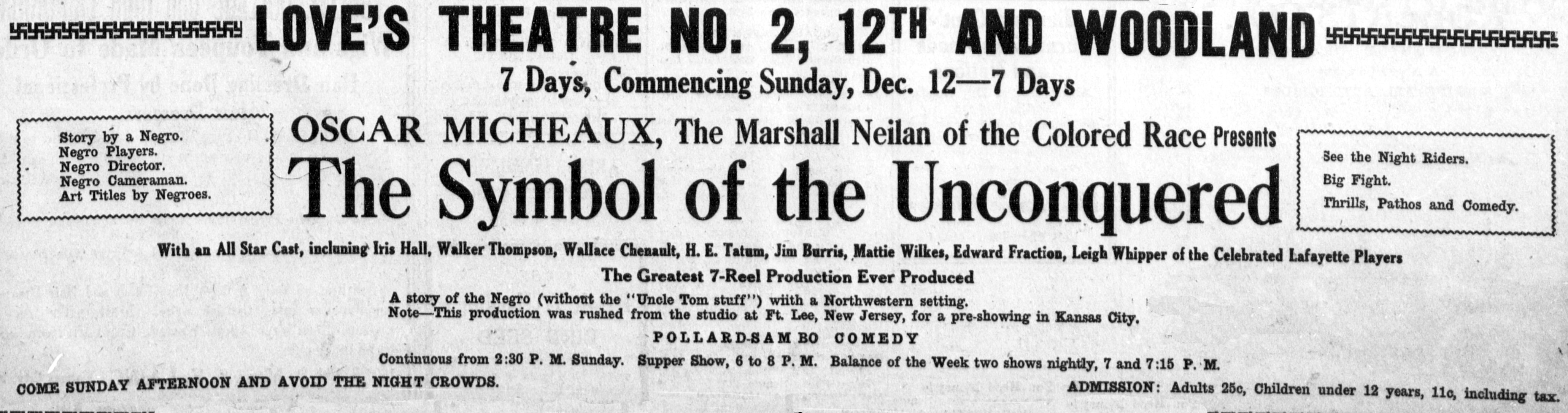 The Symbol of the Unconquered (aka The Wilderness Trail) is a 1920 silent "race film" drama produced, written and directed by Oscar Micheaux. This is a text only newspaper advert for the film. Of note is the contemporary statement that the film is 7 reels.